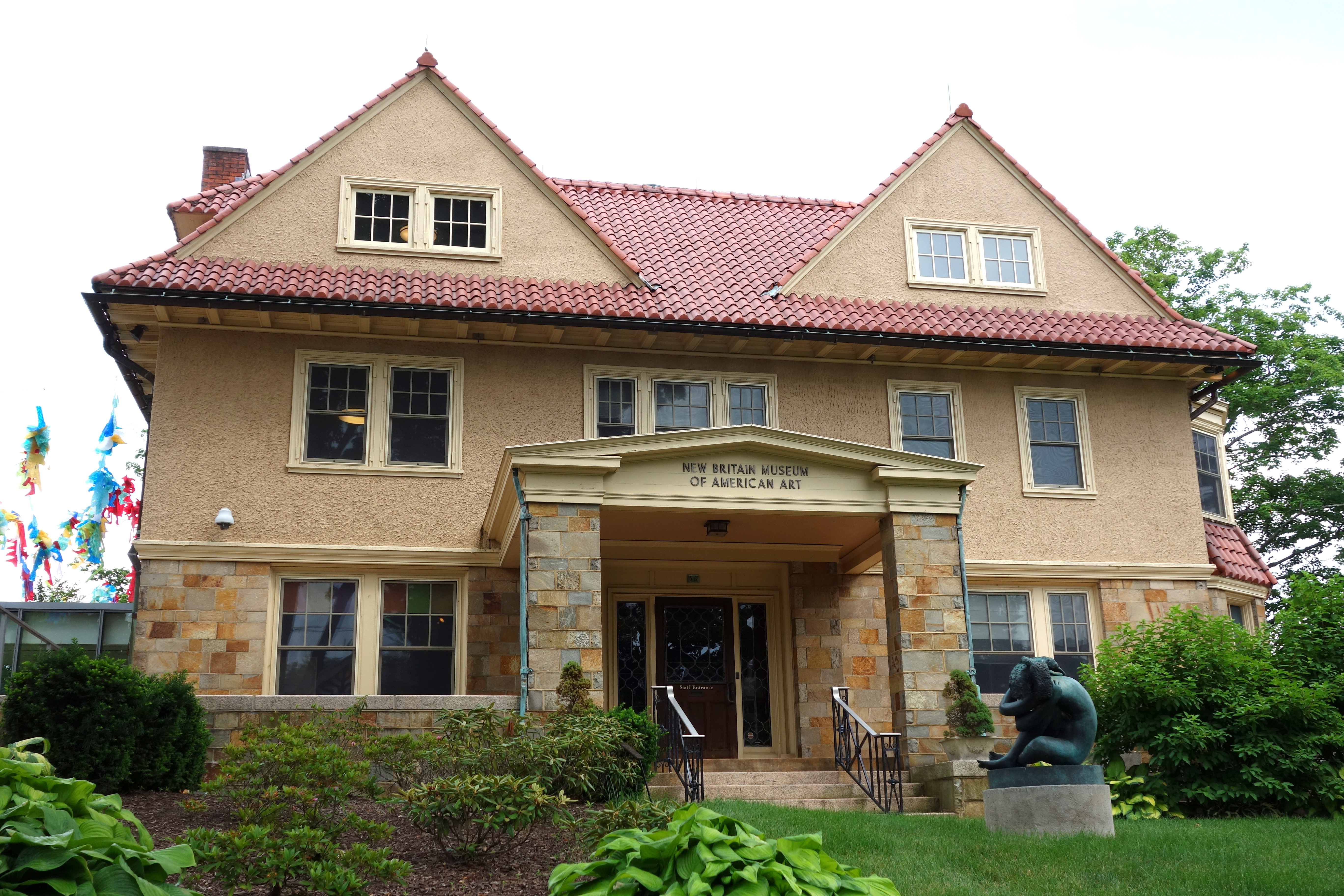 New Britain Museum of American Art, 56 Lexington Street, New Britain, Connecticut, USA.